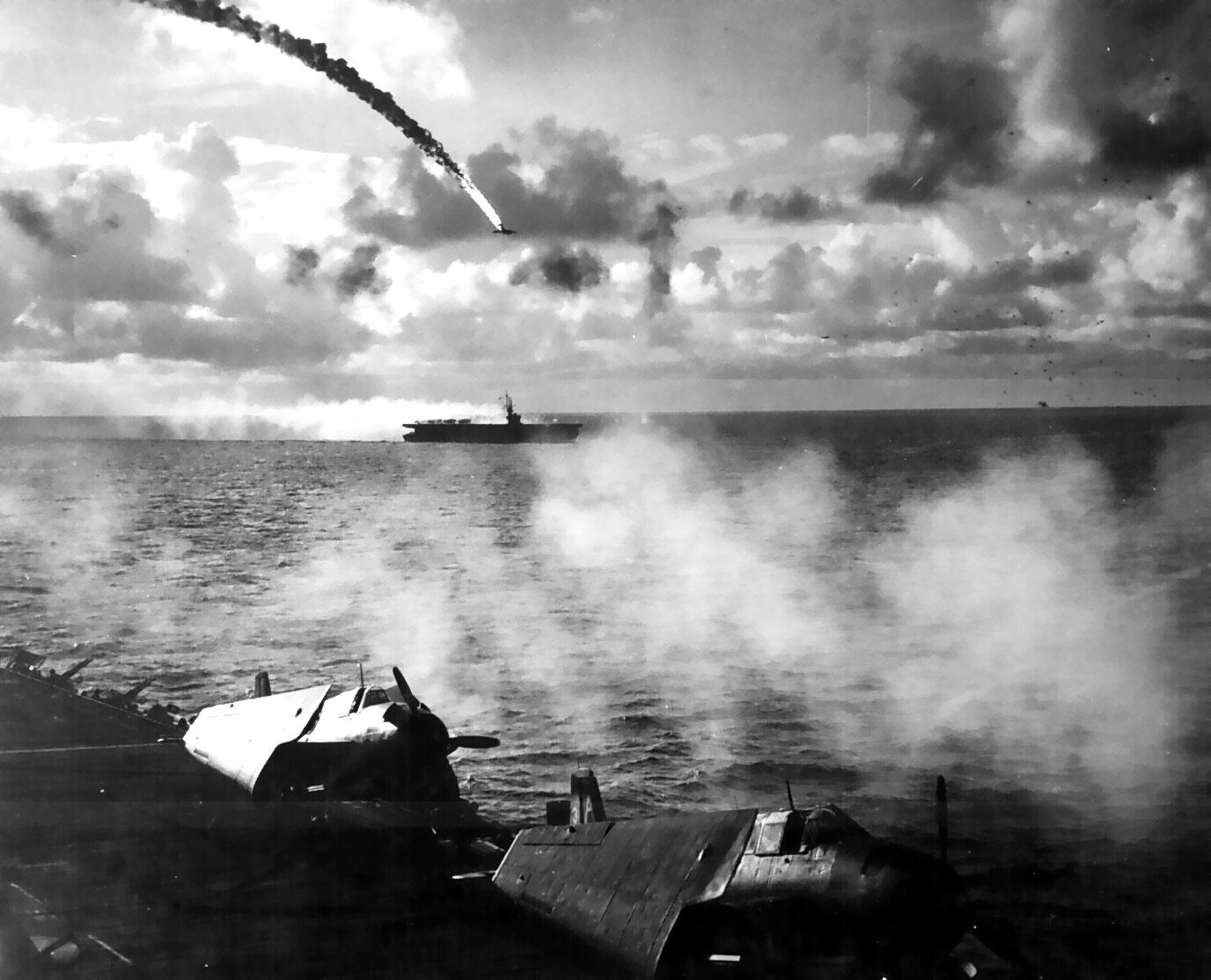 Japanese plane shot down as it attempted to attack USS Kitkun Bay (CVE-71) near Mariana Islands